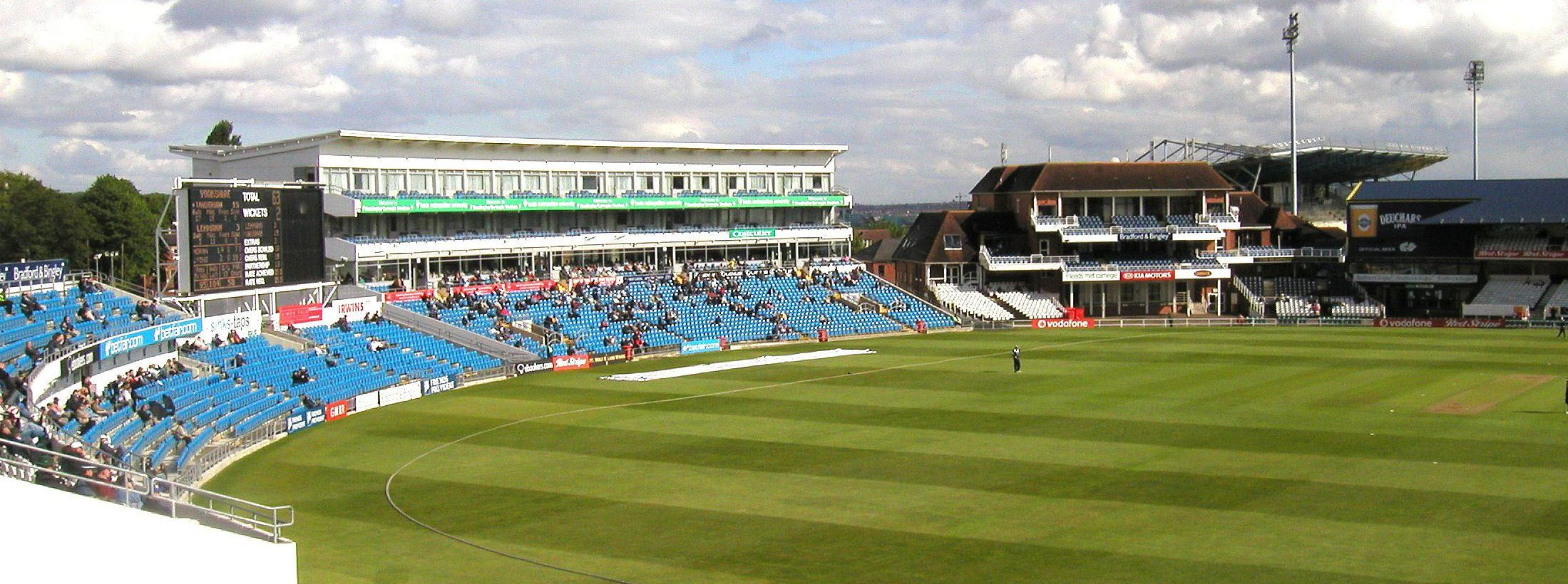 Headingley - The new east stand, members long room and hotel. In any reproduction acknowledgement must be given in the form: Photographer: Gareth J Dykes While the date was not noted on the original it must have been in 2006 due to the presence of the Carnegie stand and a 2006 original upload.